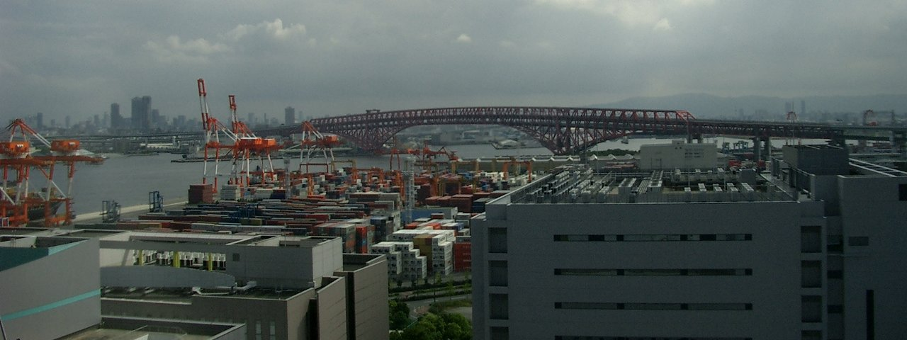 This photo presents the wide view of Minato Great Bridge (in Japanese "Minato Ohashi ja: 港大橋" ) in Osaka, Japan. ja: 港大橋（大阪市）の全景。コスモスクエア国際交流センターより撮影。（晴れていれば ... 。）